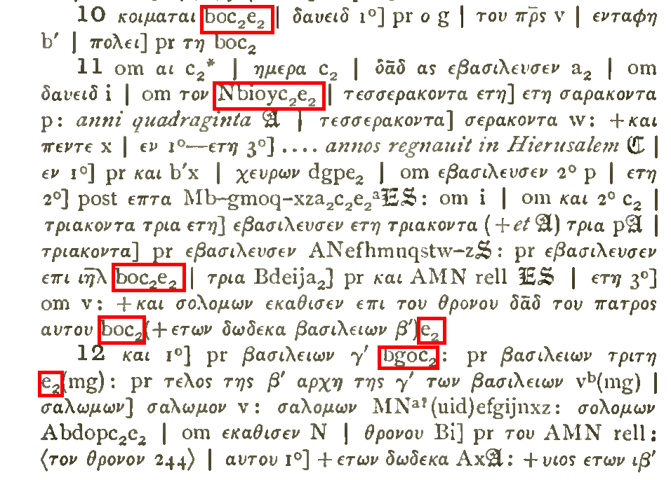 The readings of the manuscripts of the Antiochene (Lucianic) text are represented by the letters boc2e2 in the apparatus of the Brooke McLean edition for 1Kings 2:10-12. Important variants: At the end of v. 11, there is additional text ("and Solomon sat on the throne of his father David"). At the beginning of v. 12, the book division between 1Kin 2:11 und 1Kin 2:12 is mentioned by the superscrition "3rd (book of) kingdoms" before v.12 in the Antiochene manuscripts.